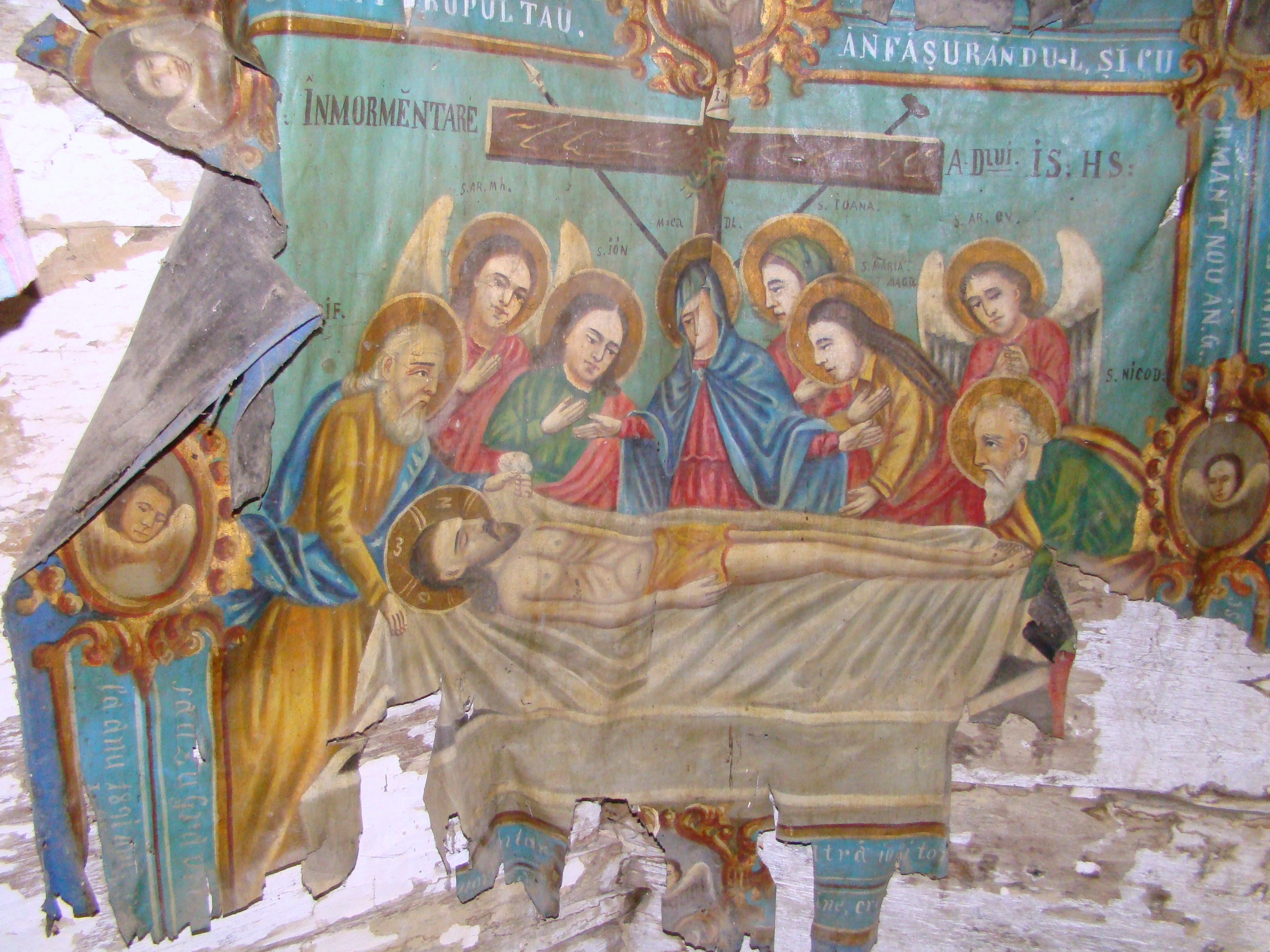 Saint George's wooden church in Voiteștii din Vale, Gorj county, Romania